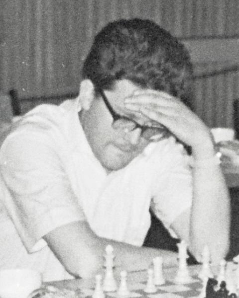 Lothar Schmid, European Championship 1961 at Oberhausen, Photographer Gerhard Hund.